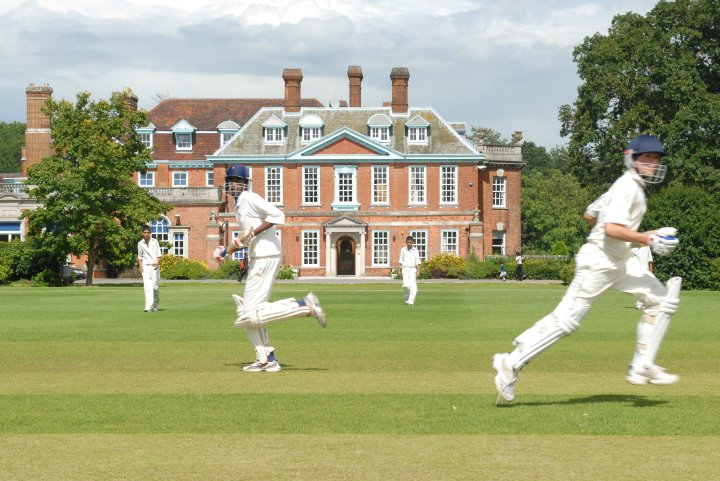 Boys playing cricket in front of Aldenham House (Haberdashers' Aske's Boys' School)